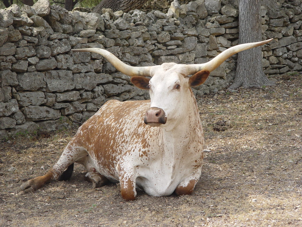 A longhorn in Texas, apparently kept as a pasture pet.